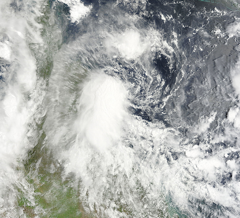 31 January 2009 MODIS Terra satellite image of Tropical Low 09U over Far North Queensland.